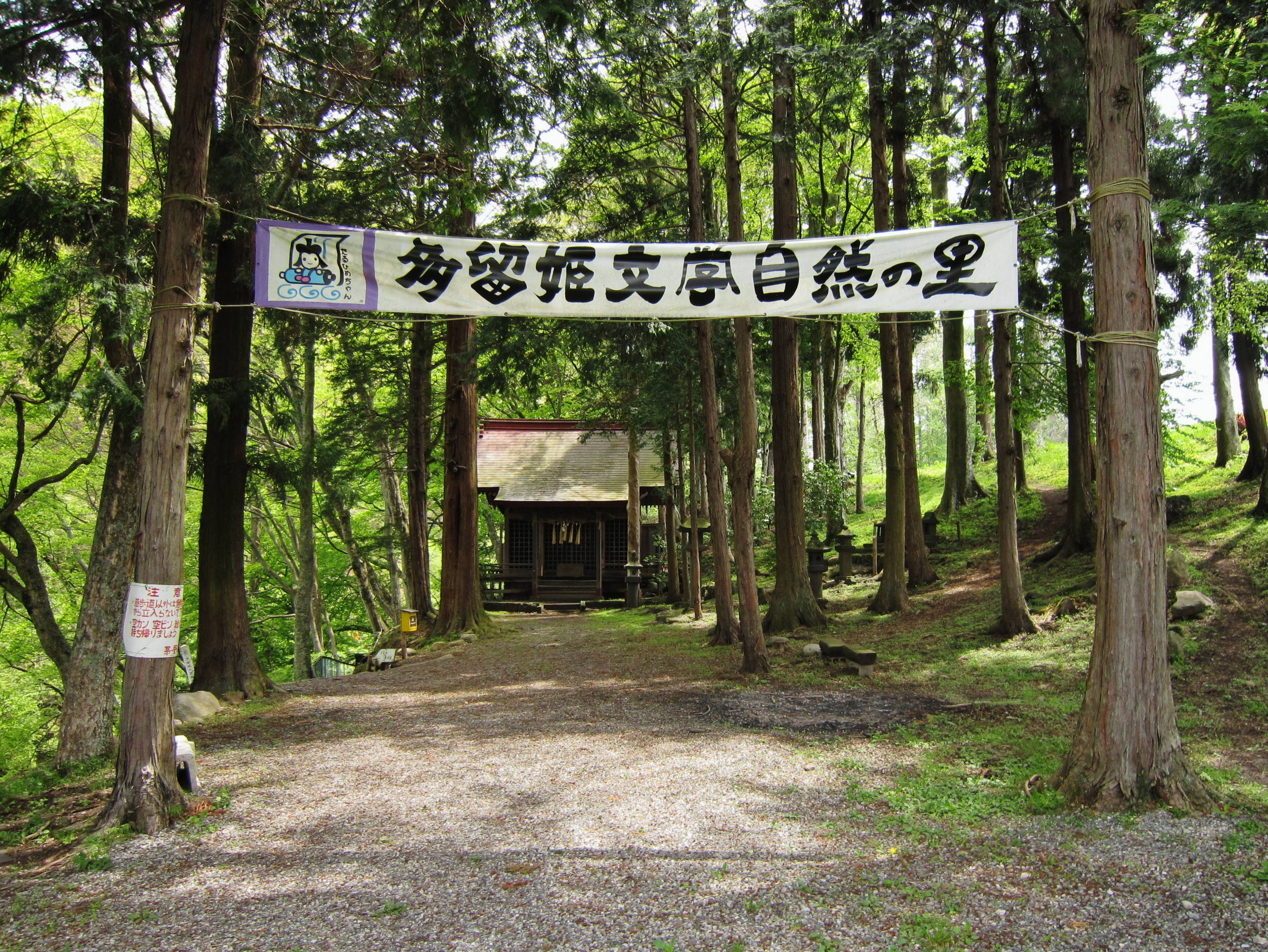 Taruhime Shrine.